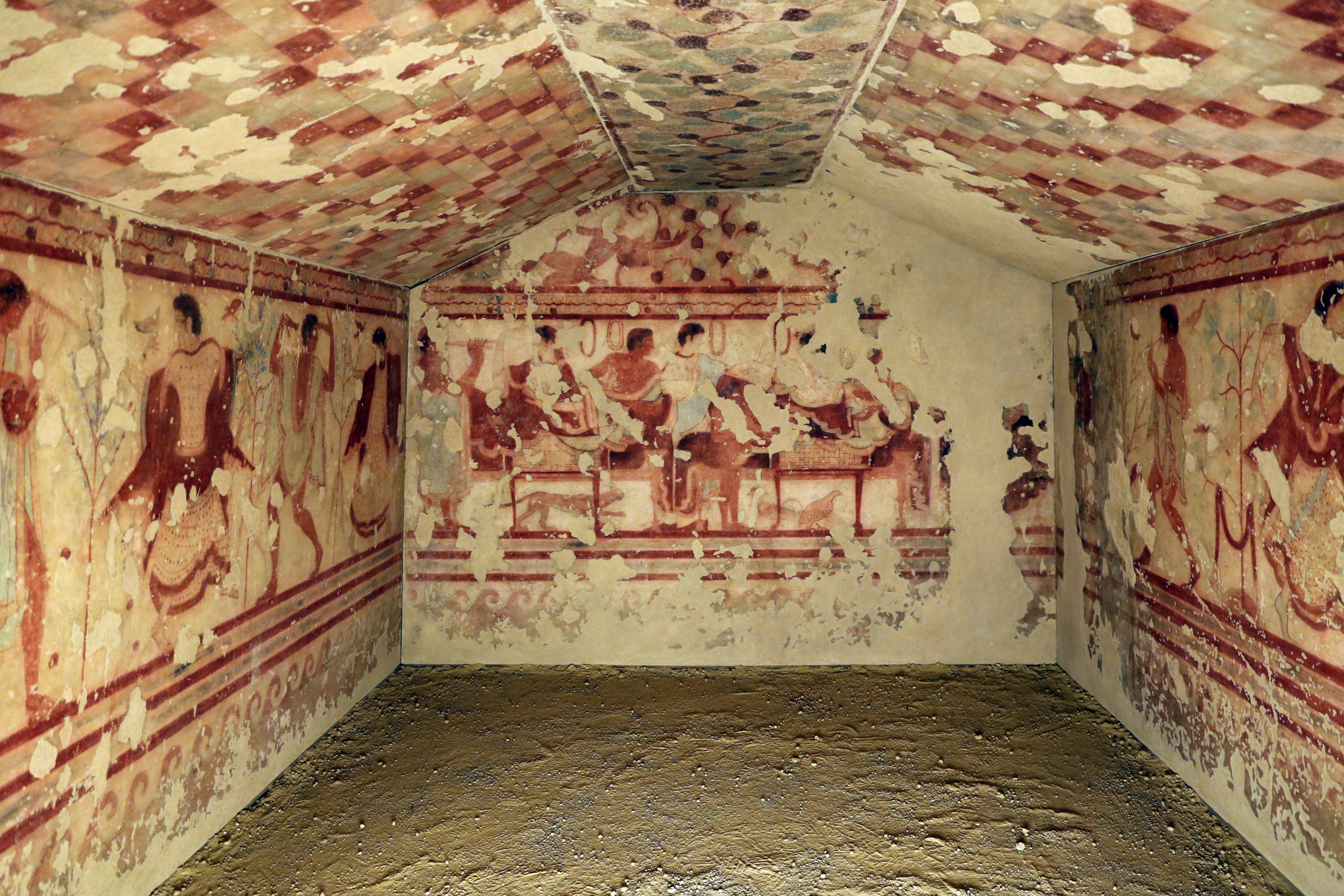 Etruscan antiquities the Museo archeologico nazionale (Tarquinia)